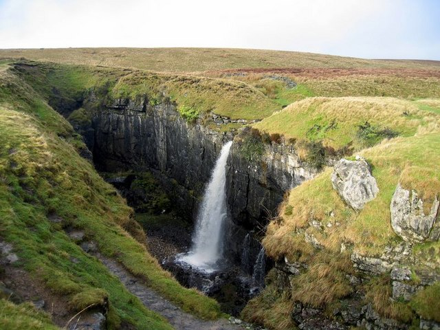 Hull Pot Taken on a very wet New Year's Eve